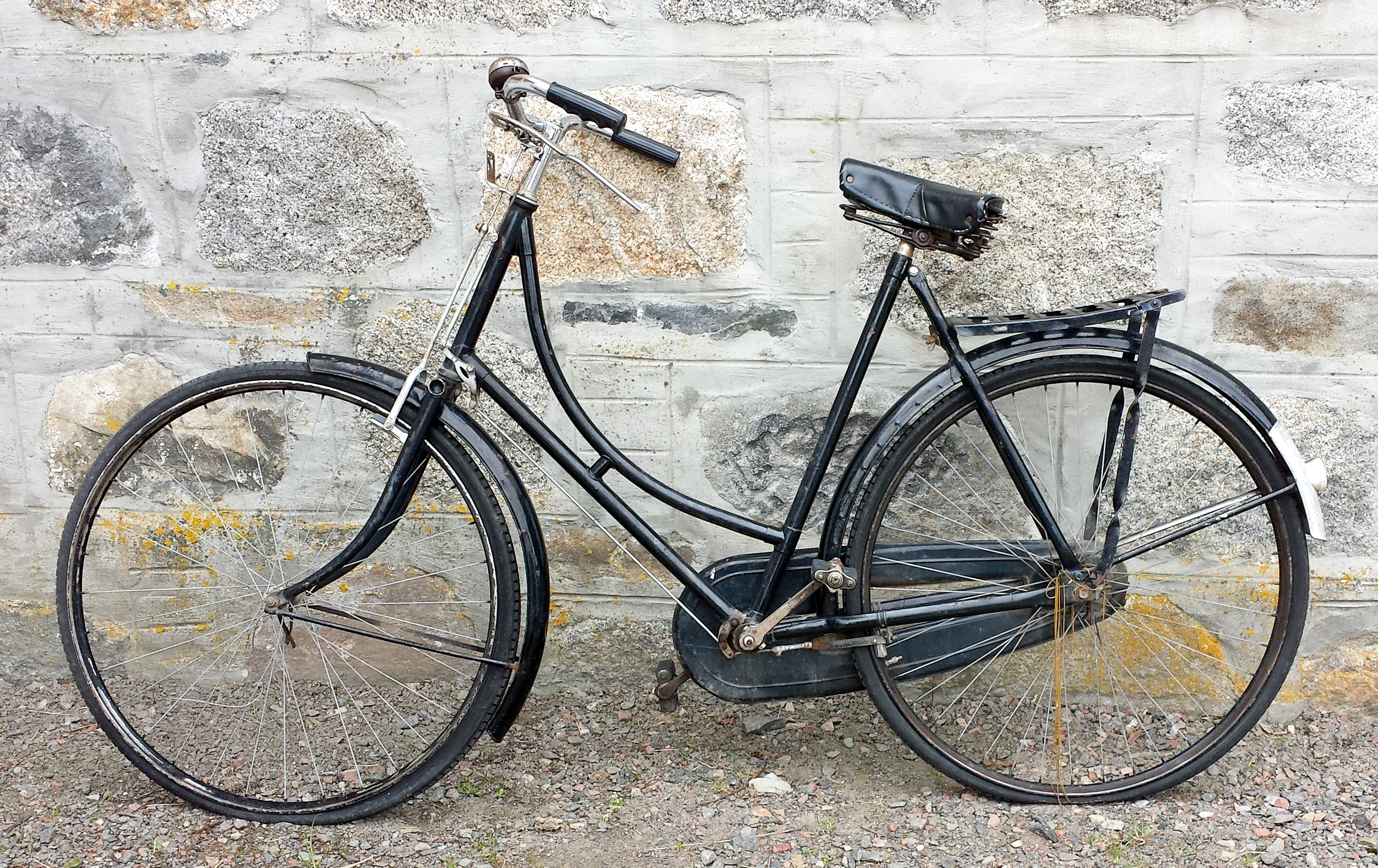 A 1930s Raleigh lady's loop frame bicycle. Photographed at the Highland Folk Museum, Kingussie.